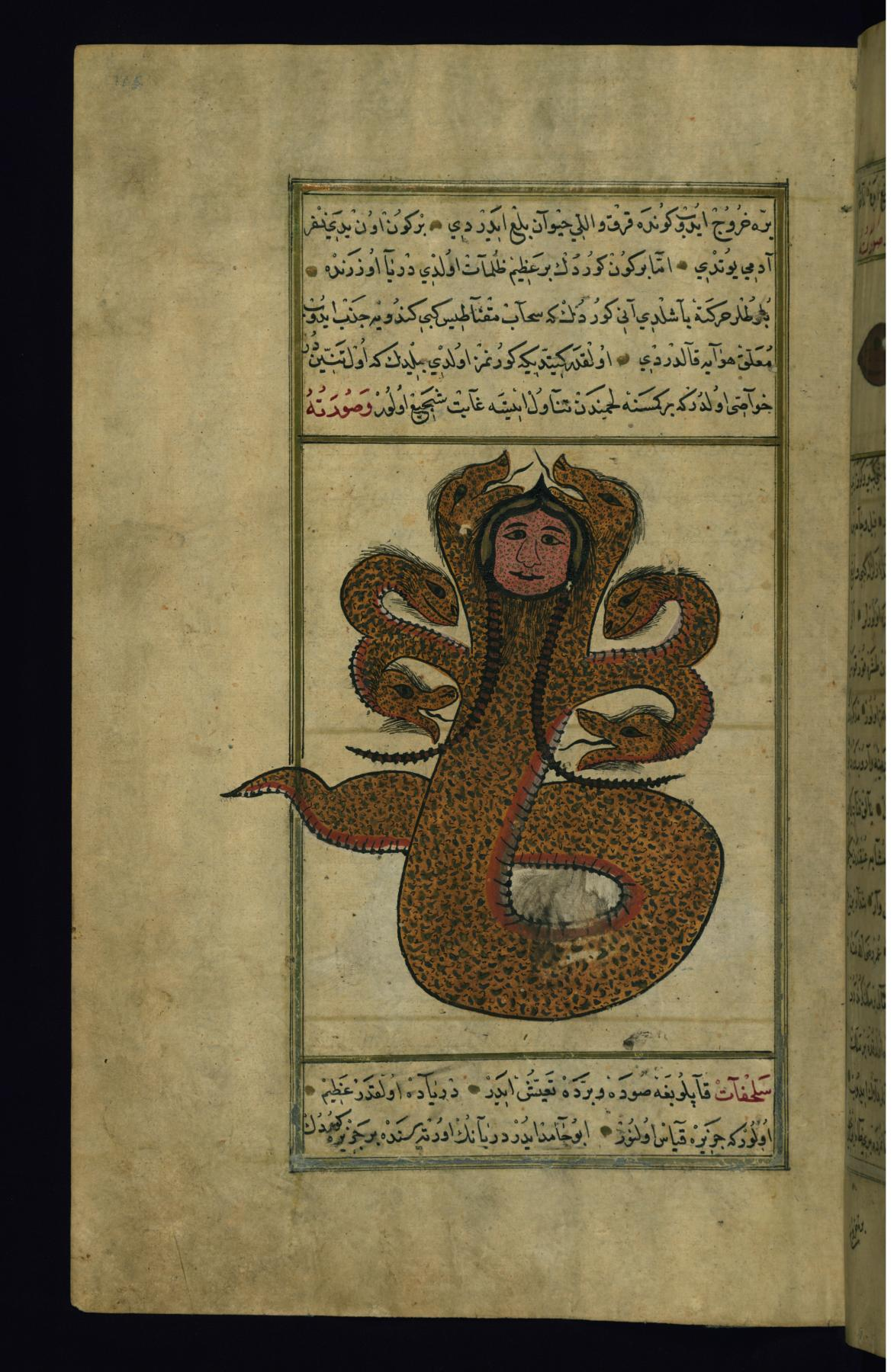 This folio from Walters manuscript W.659 depicts a dragon.